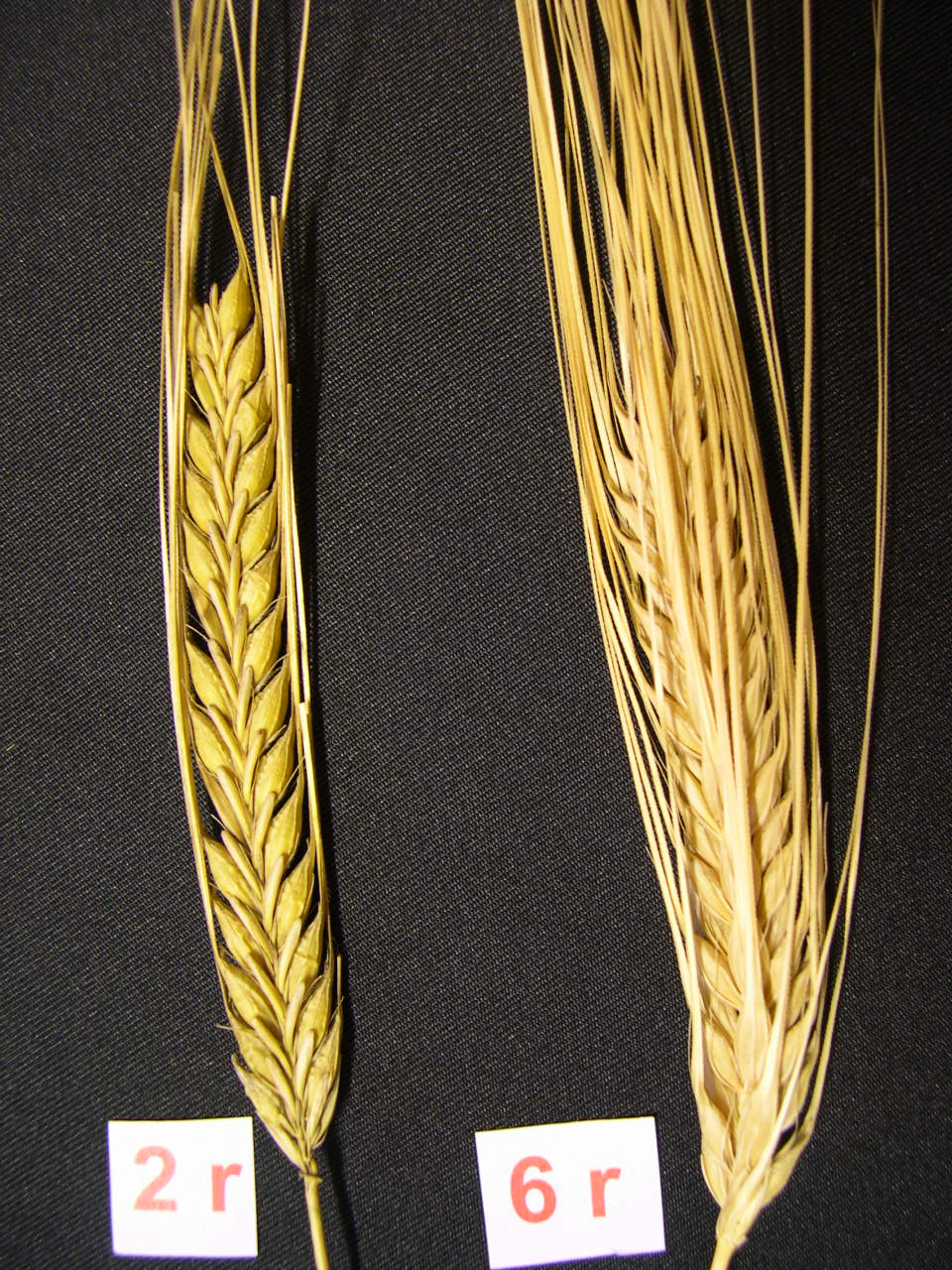 Two-row and six-row barley ears. The six-row is bere from Orkney.